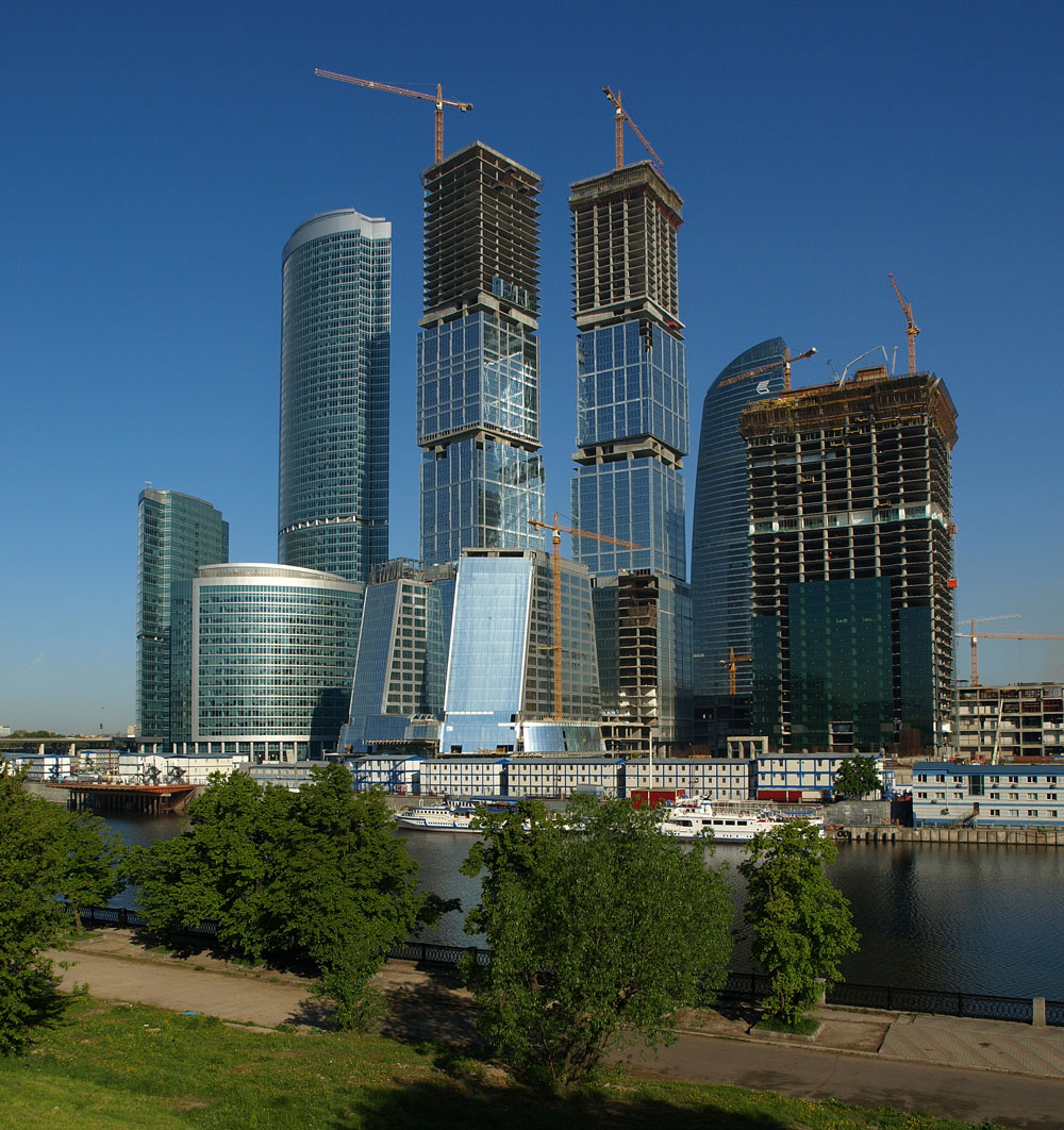 City of capitals (i.e. Moscow ans St.Petersburg) twin towers under construction. 16.05.2008. Testing the new Zuiko 12-60 f/2.8-4 zoom.